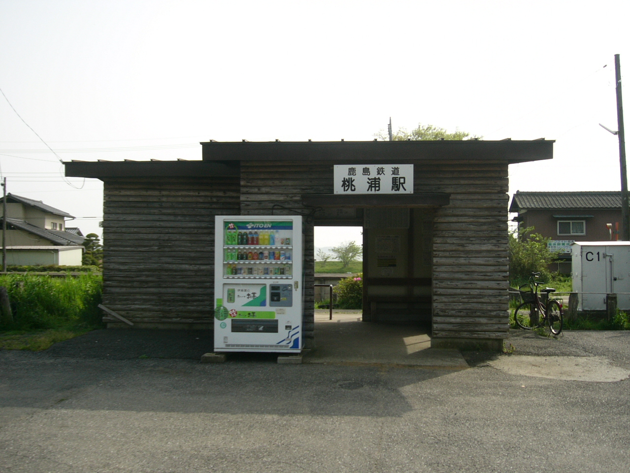 Momoura Station